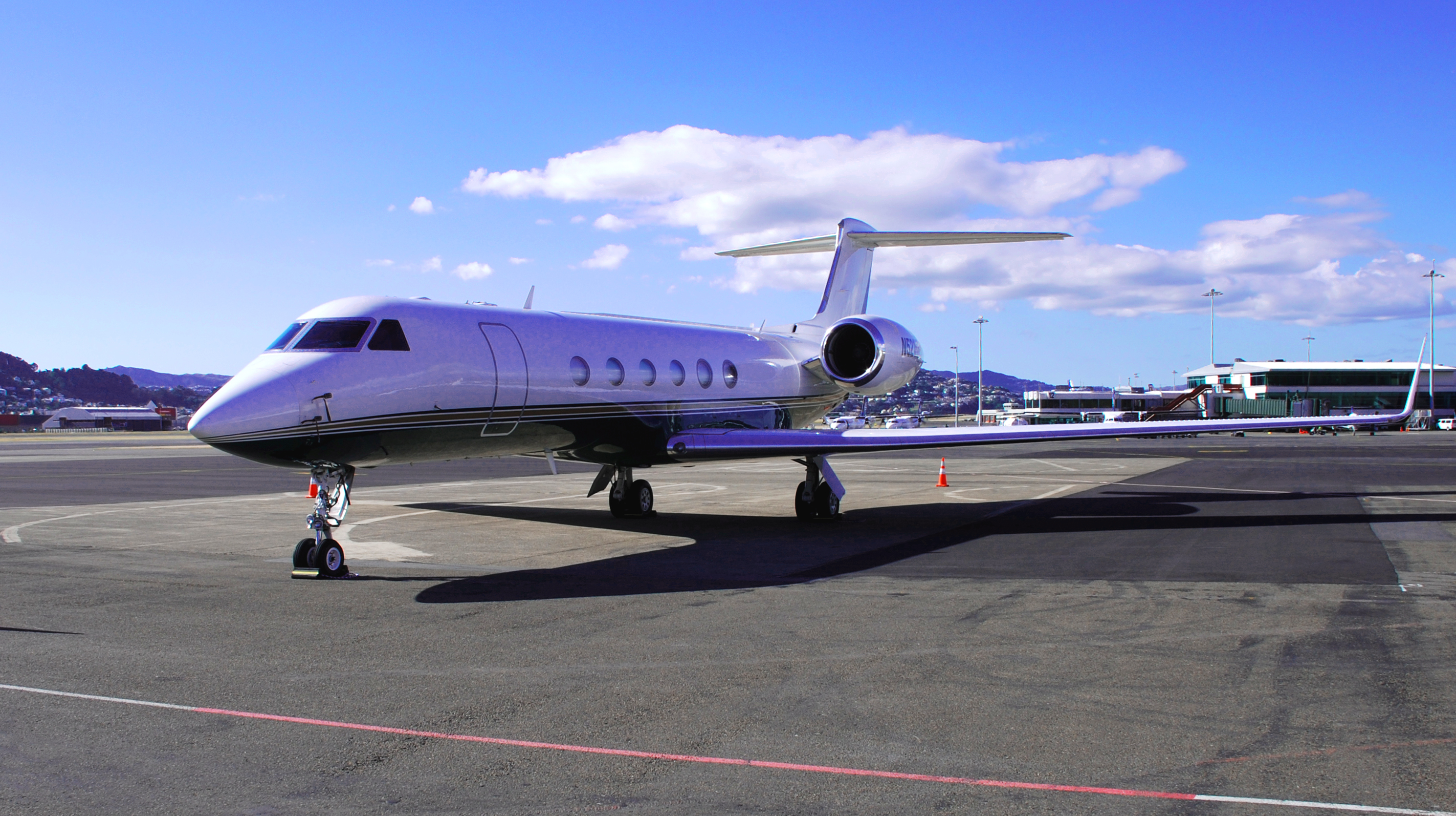 For the comparison see next photo. Gulfstream, Wellington, New Zealand, 22 December 2007. I understand that this is a 'Hobbit' related visit.